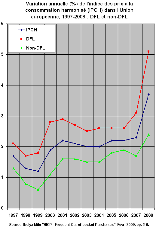 Annual change in the Harmonized Index of Consumer Prices (HICP) in the EU, 1997 to 2008 : Frequent Out-of-pocket Purchases (FROOPP) and non-FROOP.